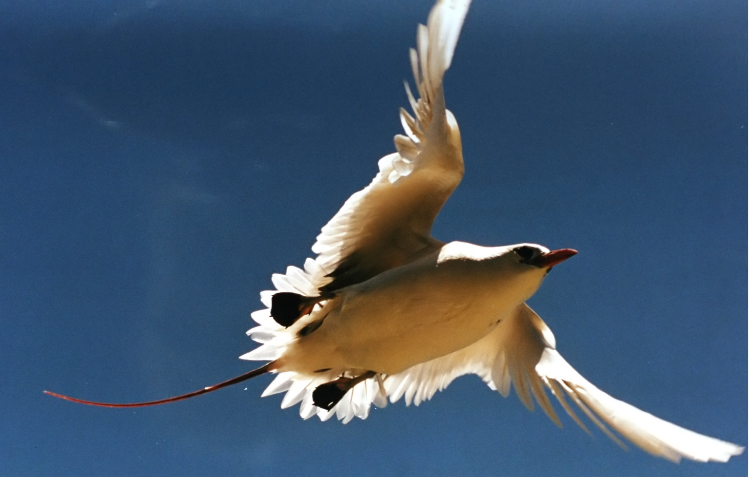 Red-tailed Tropicbird at Midway Atoll. Photograped by Brocken Inaglory